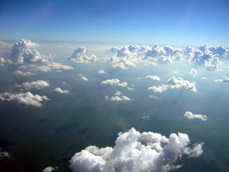 Above the clouds at 8,000 Feet